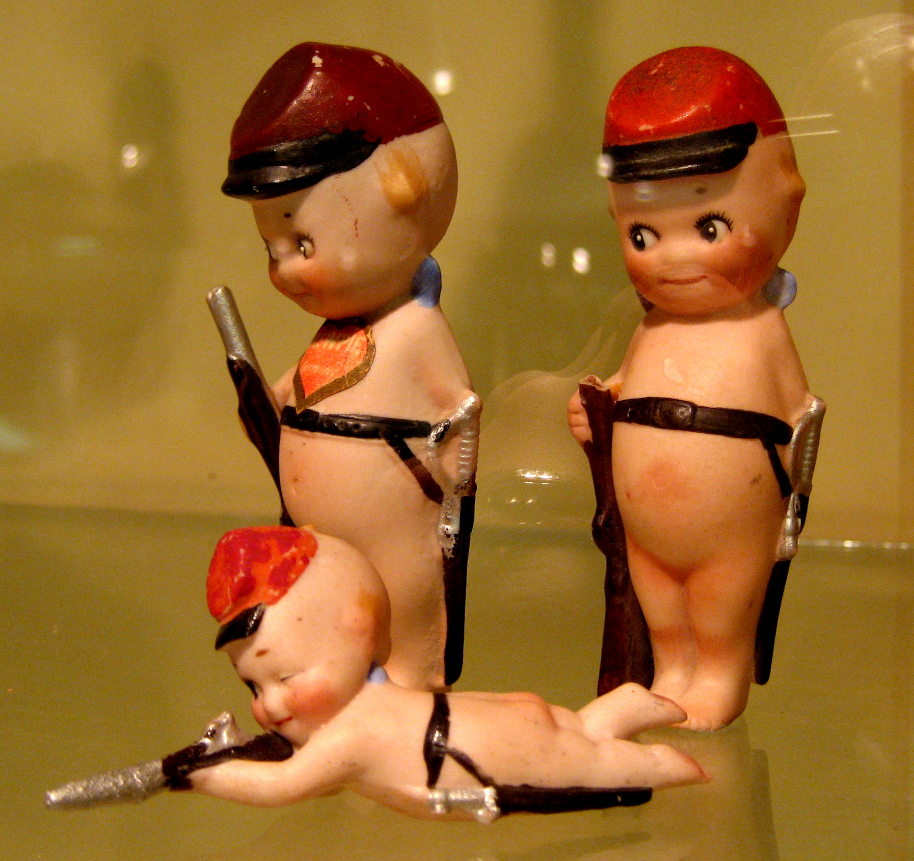 The Kewpie dolls on display at the Ralph Foster Museum.